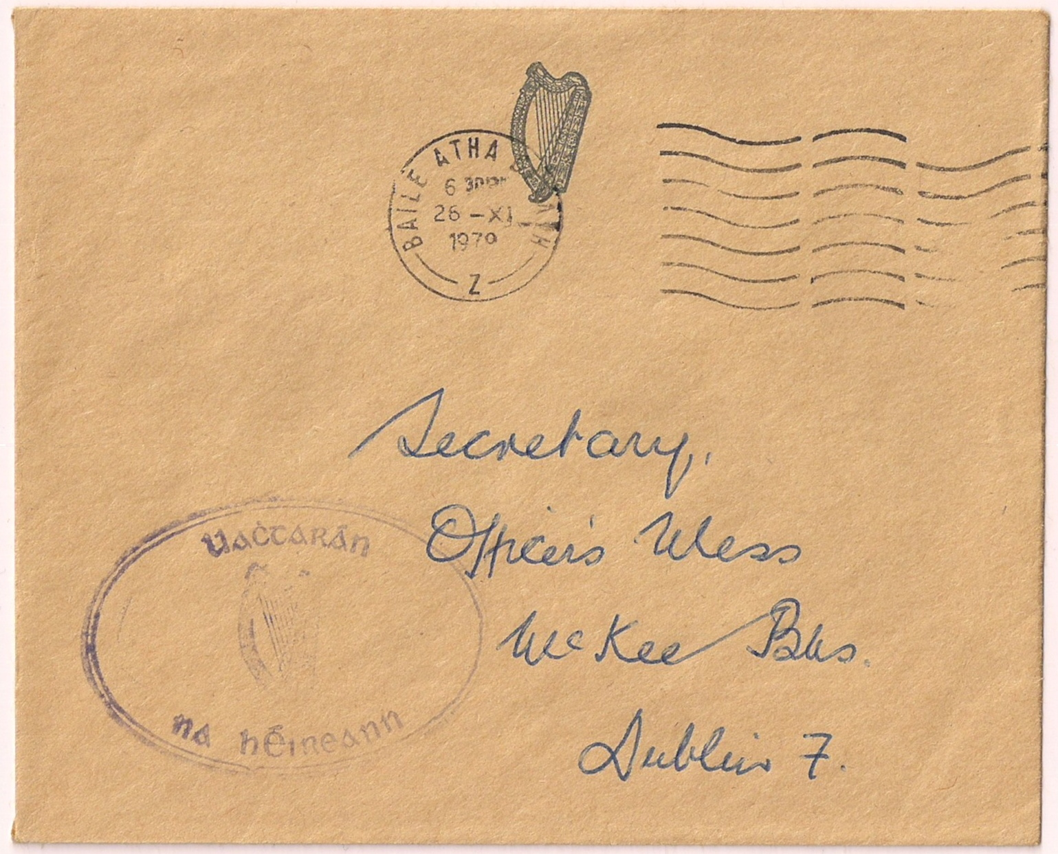 Envelope from the Irish President mailed on 26 November 1979, during the term of Patrick Hillery, using an official envelope endorsed with a pre-printed harp, being the symbol for the Irish government. Certifying handstamps of the President applied to the lower left corner reading Uaċtarán na hÉireann (President of Ireland).